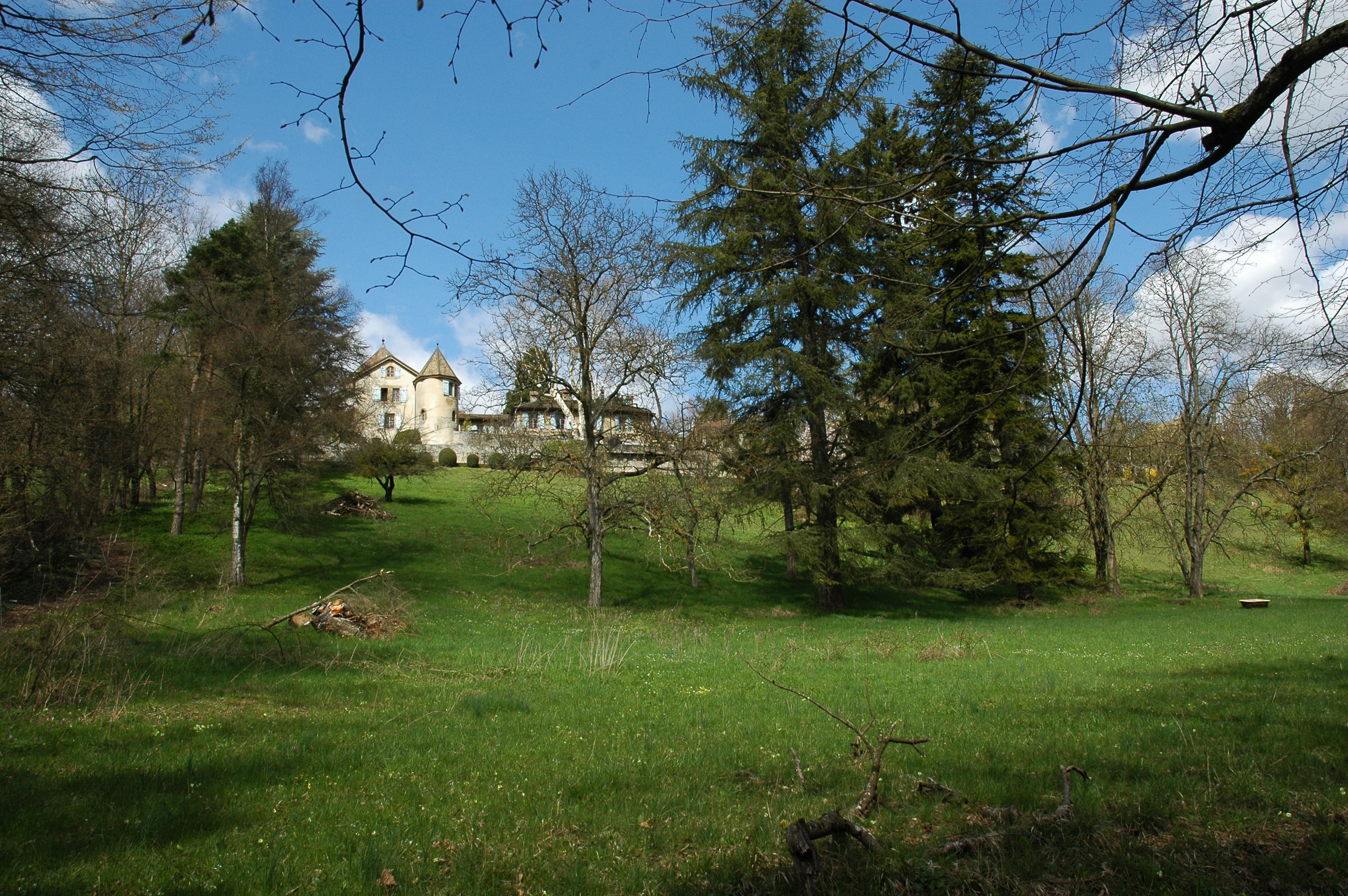 Castle of Aïre seen from the path near the Rhône River.